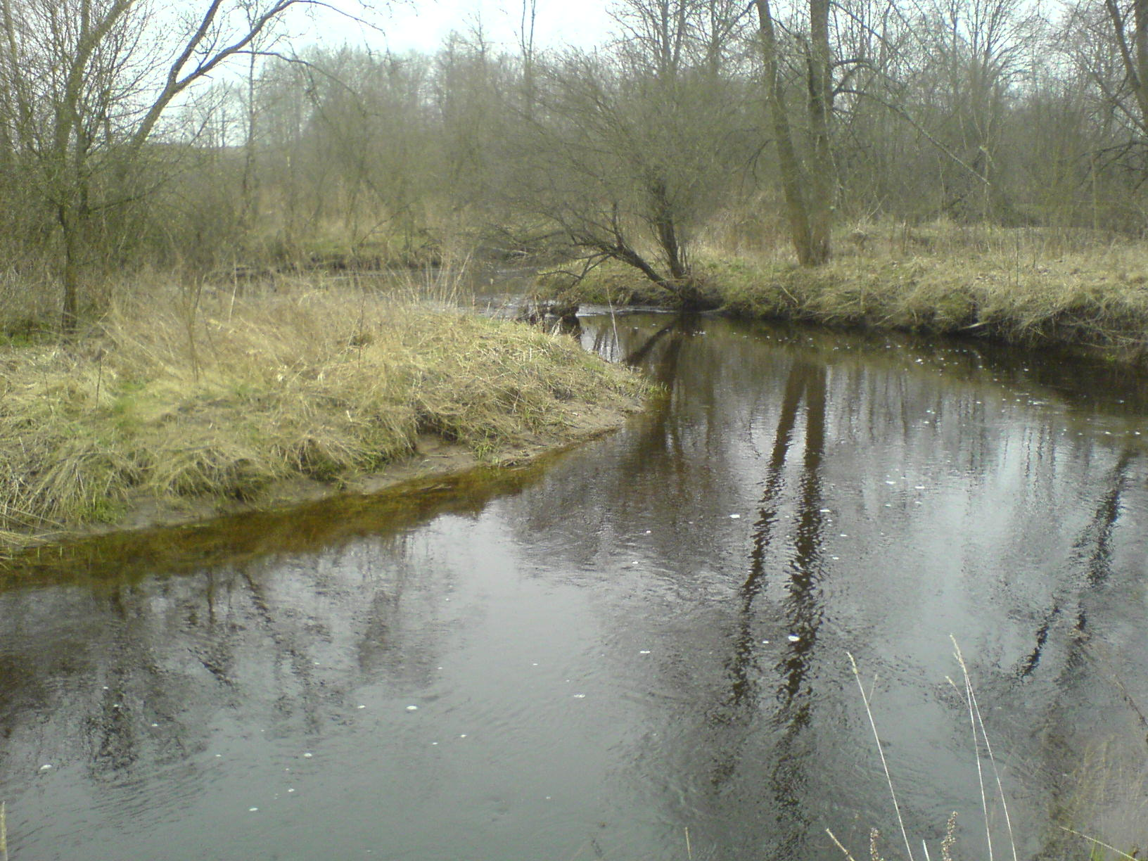 It is photo of river Muse in the district Sirvintos, Lithuania